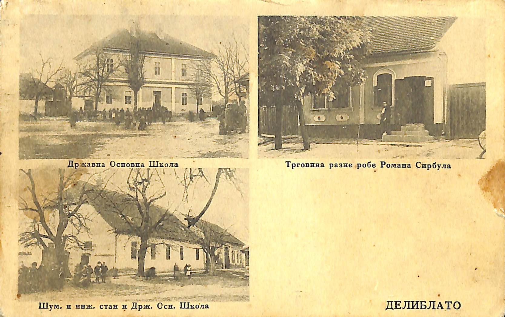 Deliblato on the postcard